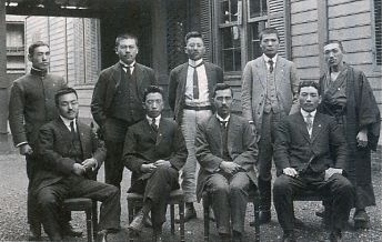 This picture is Kotora Tanahashi(1889-1973) in 1919.